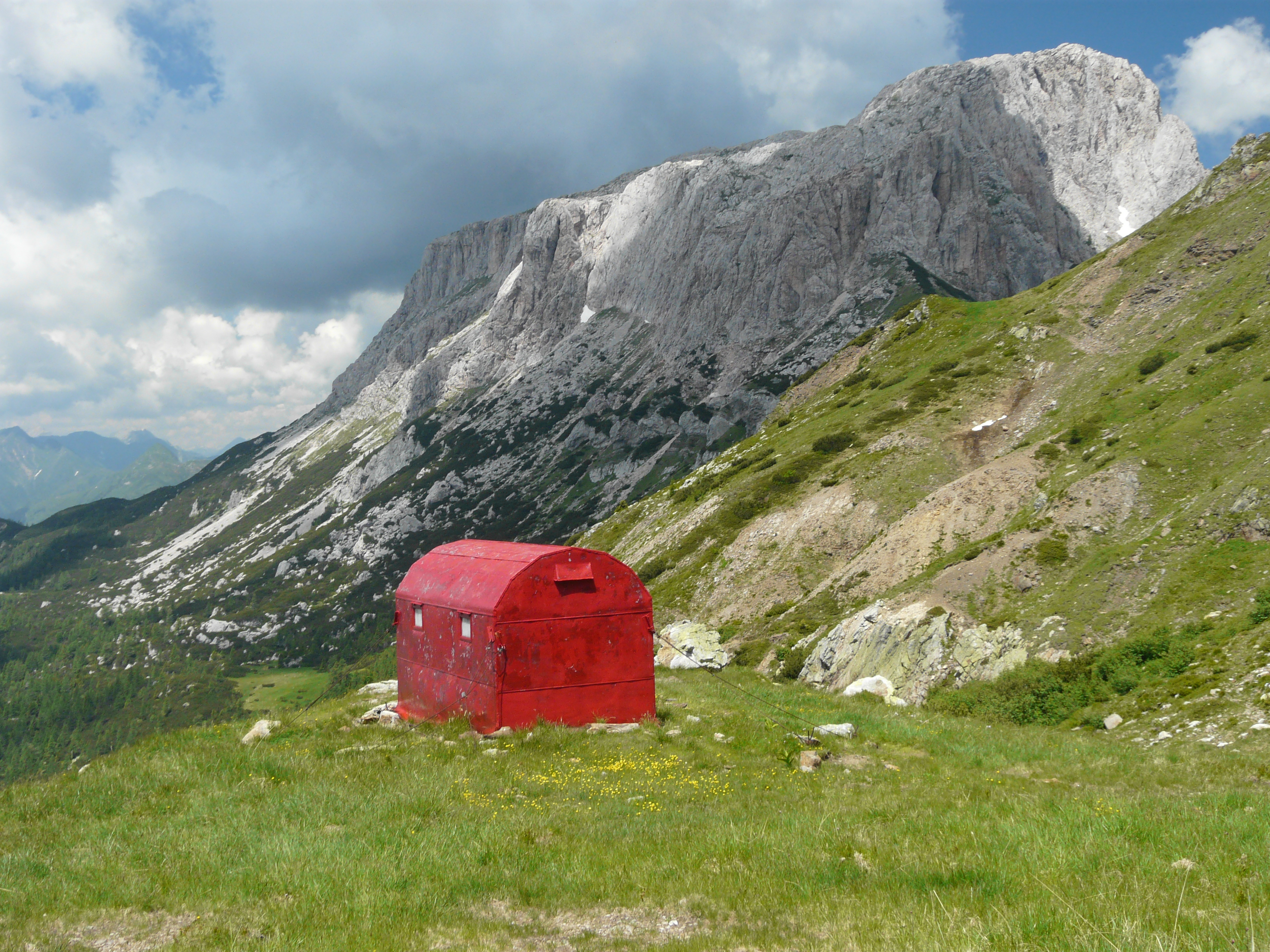 The bivouac shelter Ernesto Lomasti in the Carnic Alps, situated at 1900 meters above sea level.